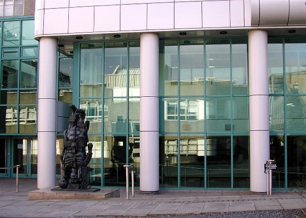 Entrance to the Michael Swann building, Edinburgh University. The Swann building is the main home of biological sciences at the university. The sculpture by the entrance is by Eduardo Paolozzi, the internationally regarded Edinburgh sculptor.